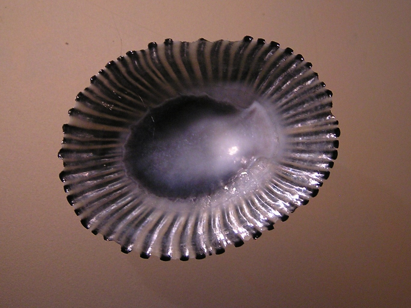 Cellana exarata (Reeve, 1854);a keyhole limpet from the family Fissurellidae; Hawaii